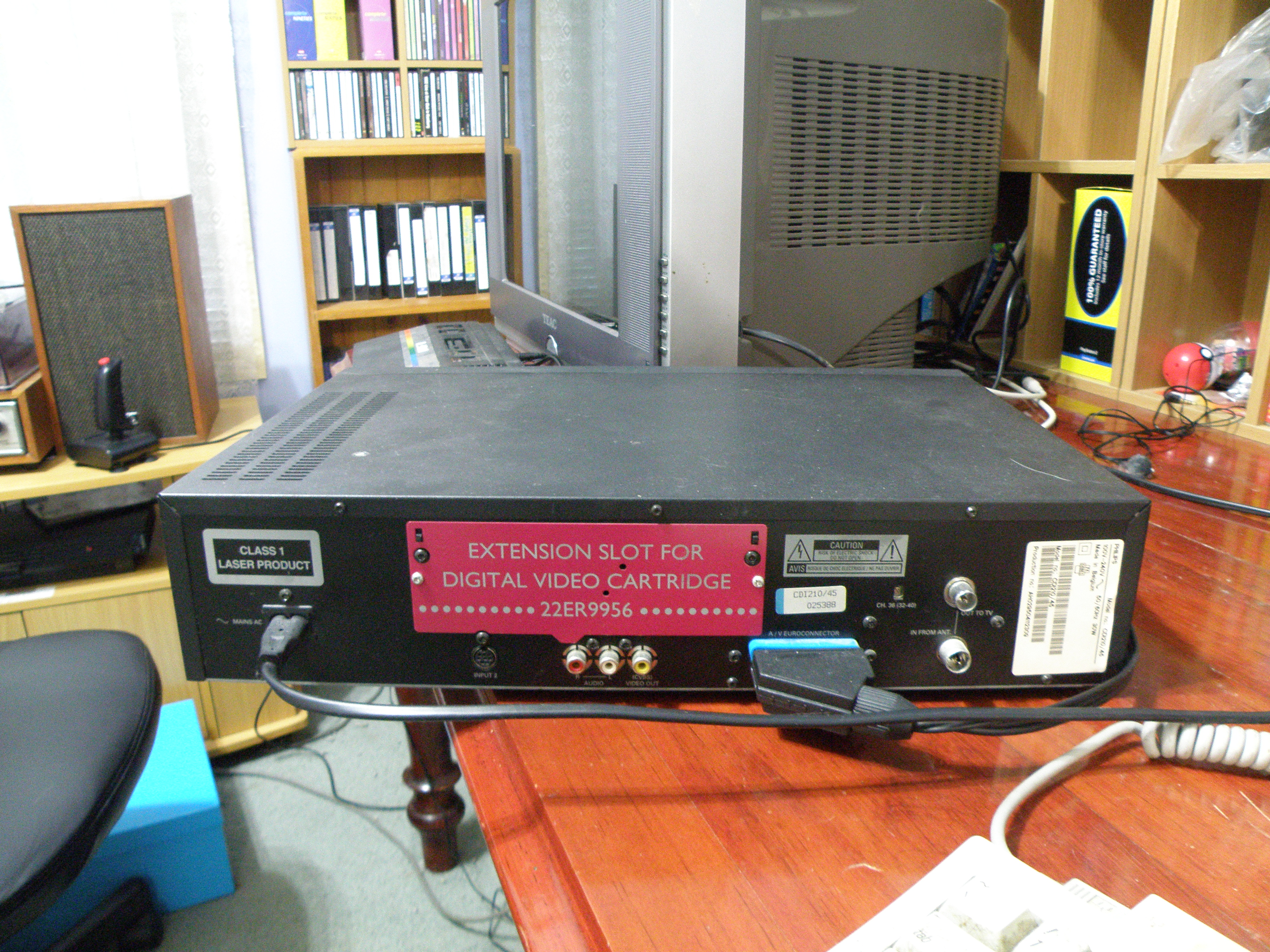 The back/rear of a PAL Phillips CD-i system. To be exact this is a CD-i 210. It's both a CD player and a video game console.